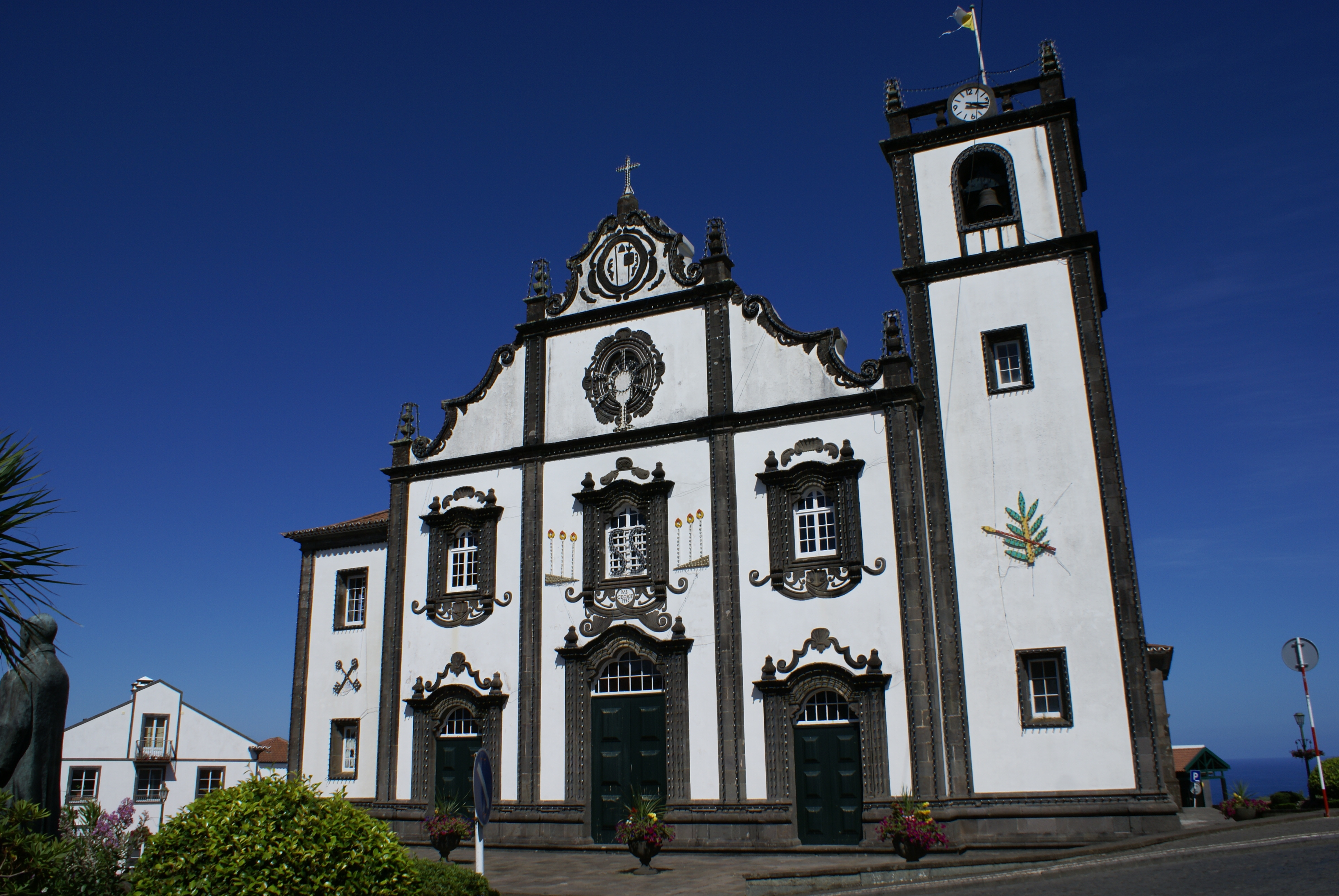 The Church of São Jorge, civil parish of Nordeste, municipality of Nordeste (Azores), Portugal